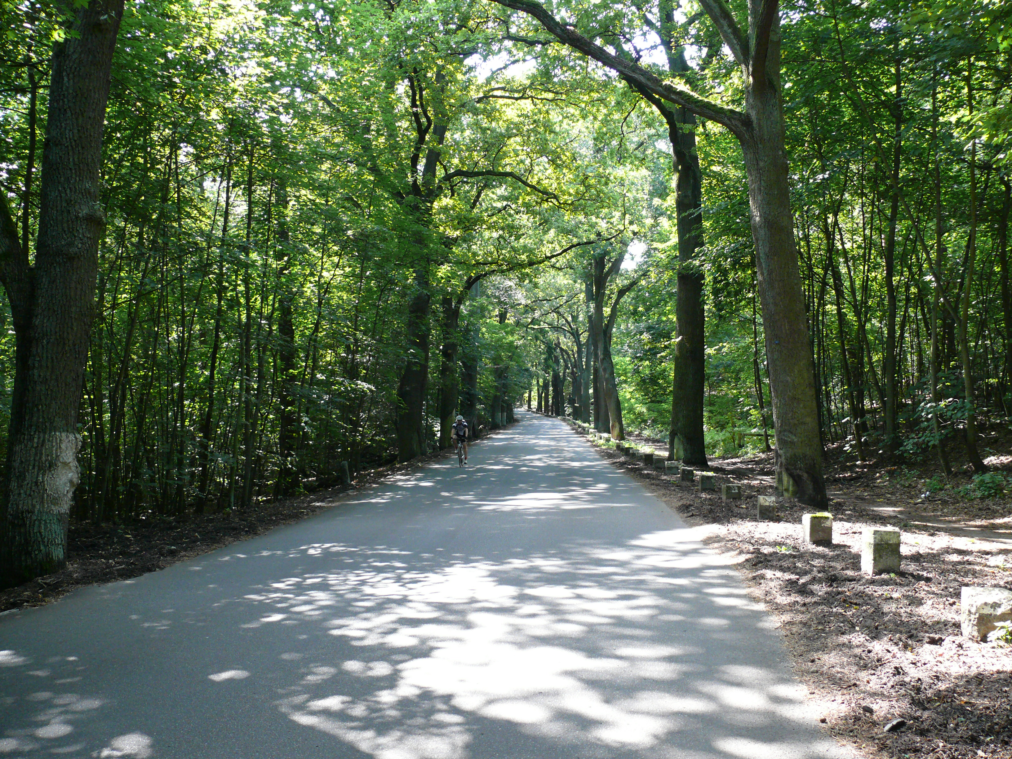 Berlin-Grunewald Havelchaussee